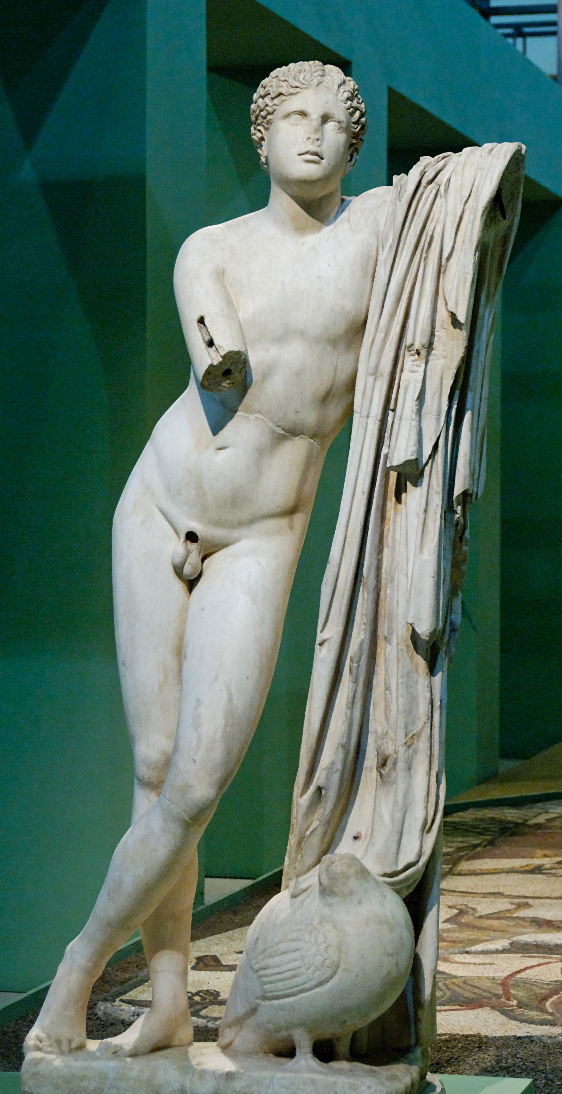 Pothos (Desire), copy after a Greek original. From a 2nd century AD villa near the Via Cavour, Rome, 1940.